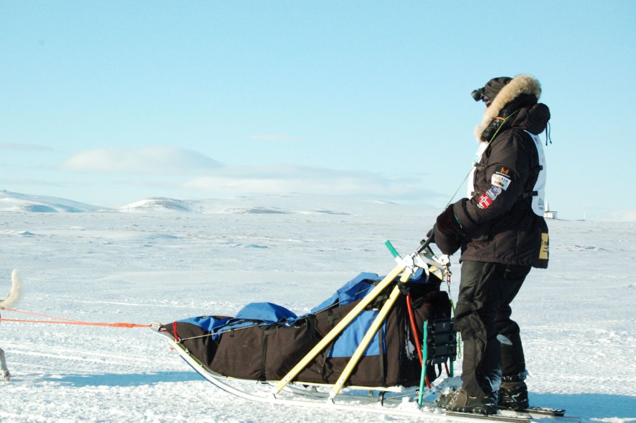 Original title is "Robert Sorlie" and original caption states "Two time Iditarod winner & Norwegian dog driver ." Robert Sørlie (Sorlie) located, as stated in a related description in the photostream as "Farley's camp, about 3 miles east of the Nome finish line" in the 2007 Iditarod sled dog race.